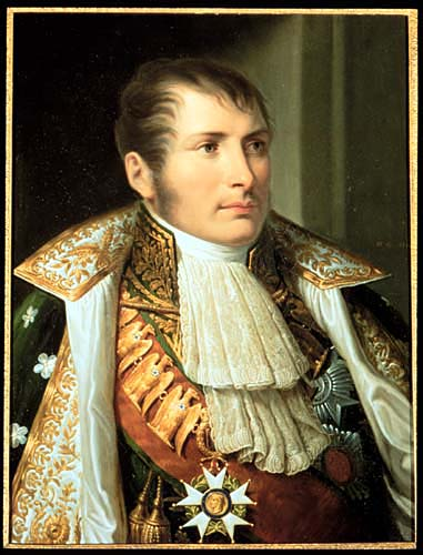 This painting is very similar to the work Napoléon Ier roi d'Italie by the same painter.